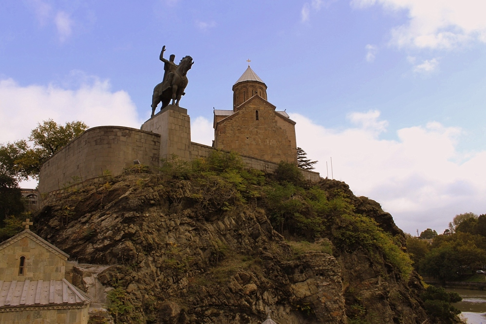 Tbilisi, Georgia.